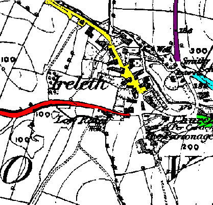 Detail of a map from between 1850 and 1873, showing Ireleth. North roughly equals up, and the map shows an area of approximately 500 m/500 m. The roads are colour coded as follows- Red- 'Sands Road' / 'Marsh Lane', now known as 'Ireleth Road' and part of the A590 Yellow- Saves Lane Purple- Road heading North towards Kirkby-in-Furness Blue- Road heading towards Marton Green- Road heading over the moors to Dalton-in-Furness